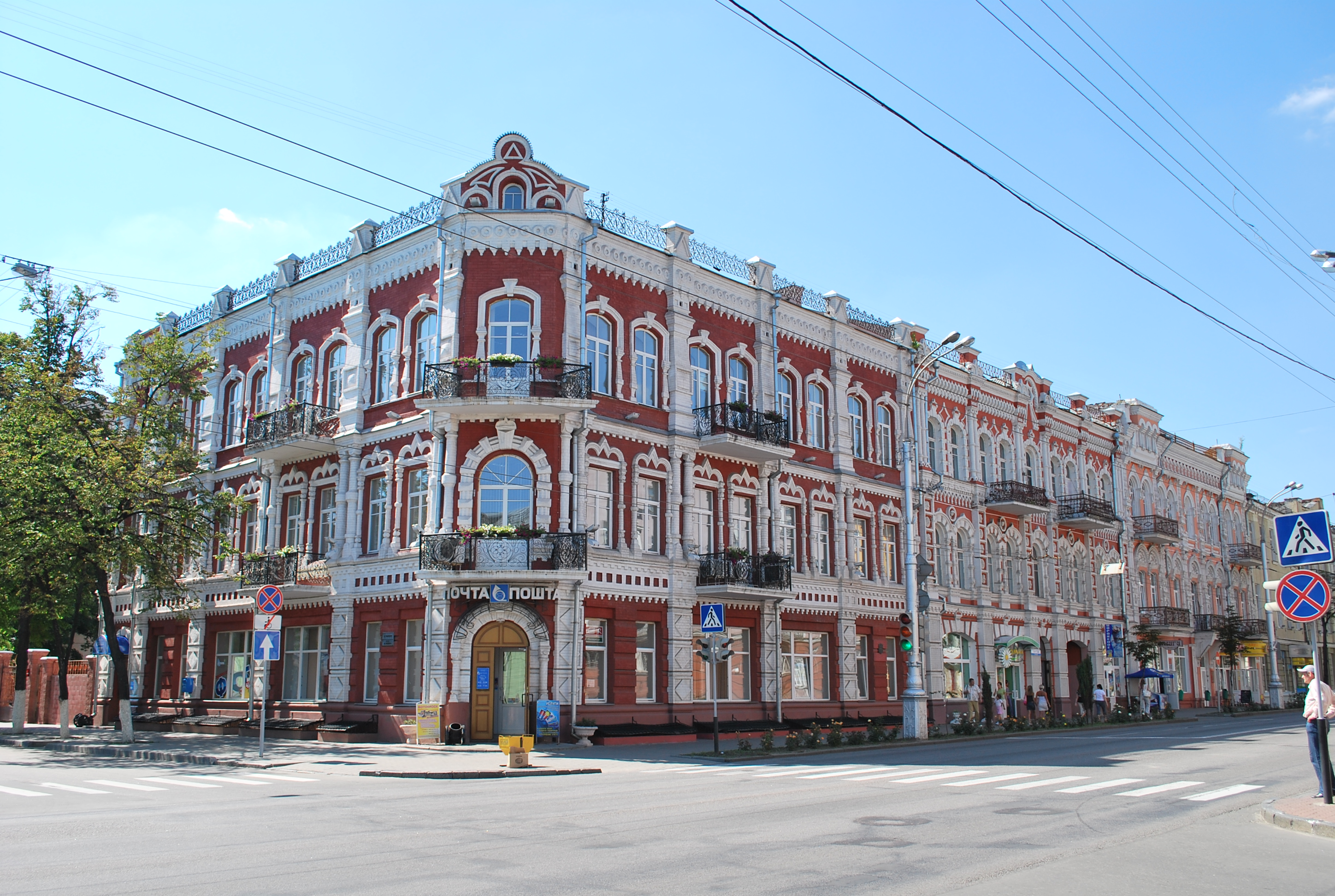 Building of post office in Sovetskaya street - former hostel, Gomel, Belarus This is a photo of Belarusian heritage monument. Reference number: 313Г000073 ( WLM)